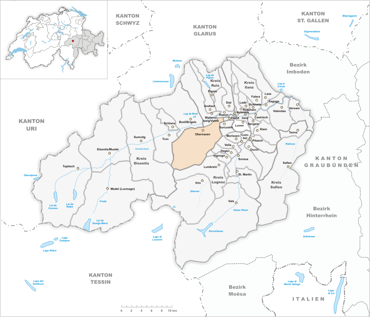 Municipality Obersaxen